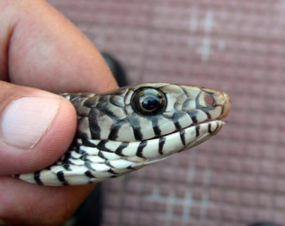 Indian Rat Snake Ptyas mucosus Family Colubridae, Serpentes Image of head. Photographed at Binnaguri, North Bengal, India.